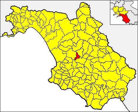 Locator map of the municipality of Castel San Lorenzo (red) within the Province of Salerno